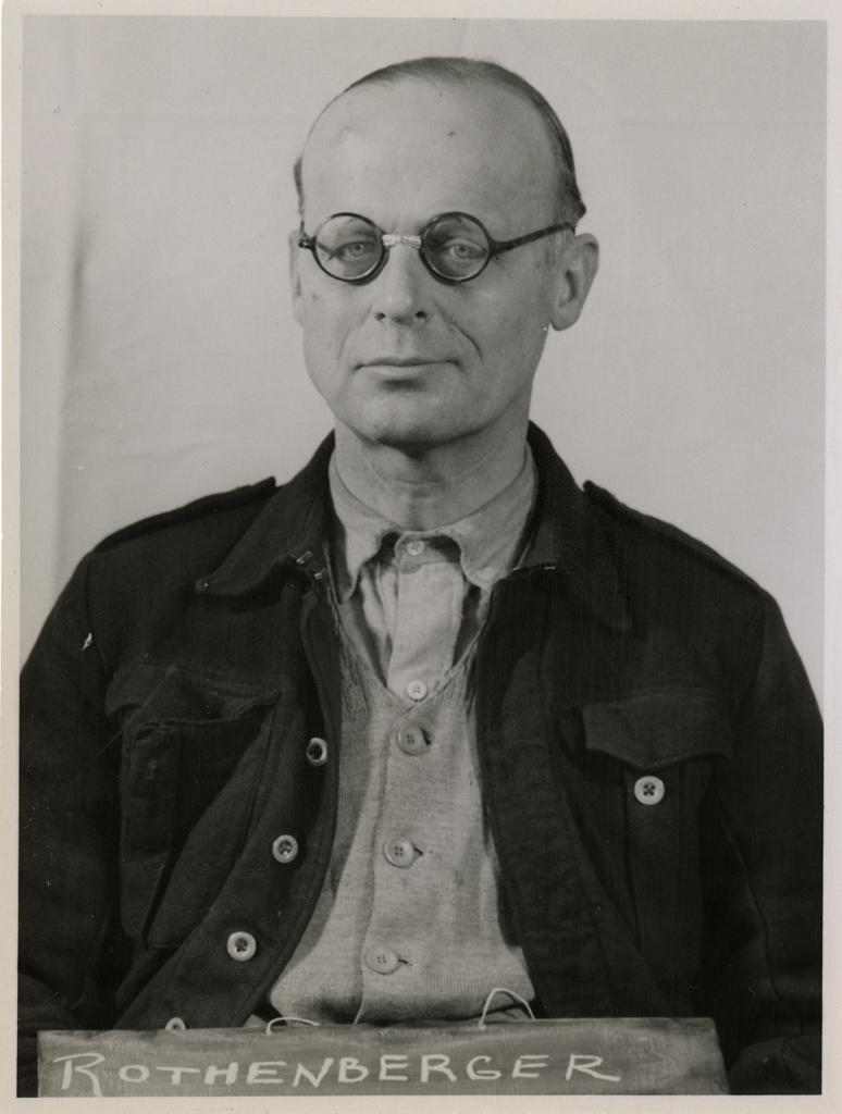 Curt Rothenberger (1896-1959) was a high ranking official (Staatssekretär) in the German Ministry of Justice (Reichsjustizministerium) during the Second World War. This photograph of Rothenberger (probably as a defendant during the Nurmeberg Trials No. III - the Justice Case) was taken by US Army photographers on behalf of the Office of the U.S. Chief of Counsel for the Prosecution of Axis Criminality (OUSCCPAC, May 1945 - Oct. 1946) or its successor organization, the Office of Chief of Counsel for War Crimes (OCCWC, Oct. 1946 - June 1949).